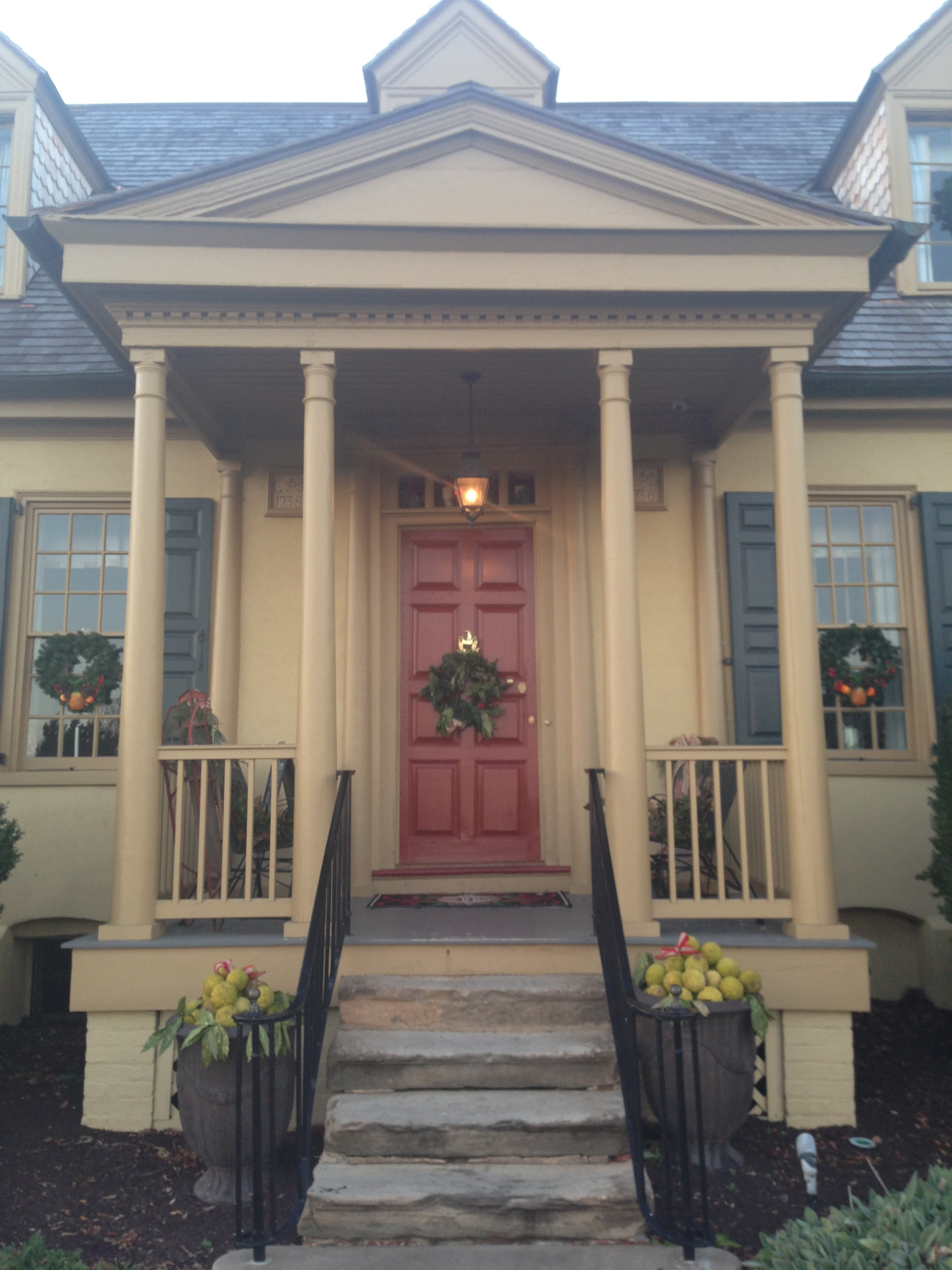 The front door of Belmont Estate in Elkridge, MD decorated for the holiday season.